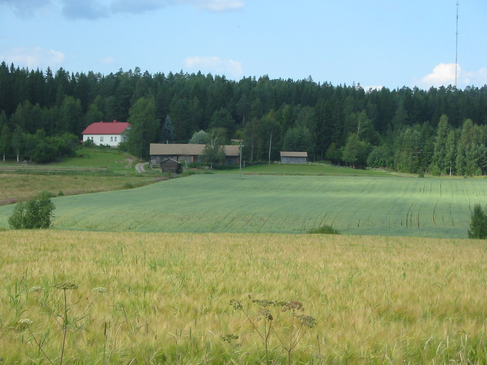 Uusikylä in the Village of Härjänoja, Somerniemi, Somrero, Finland